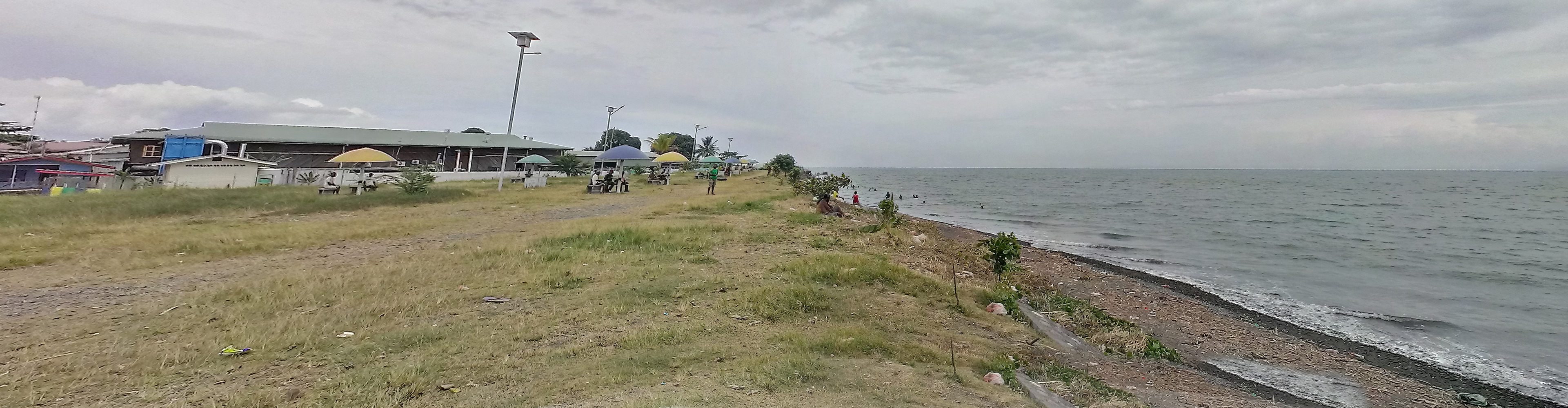 Panoramic photo of Voco Point Lae facing East.